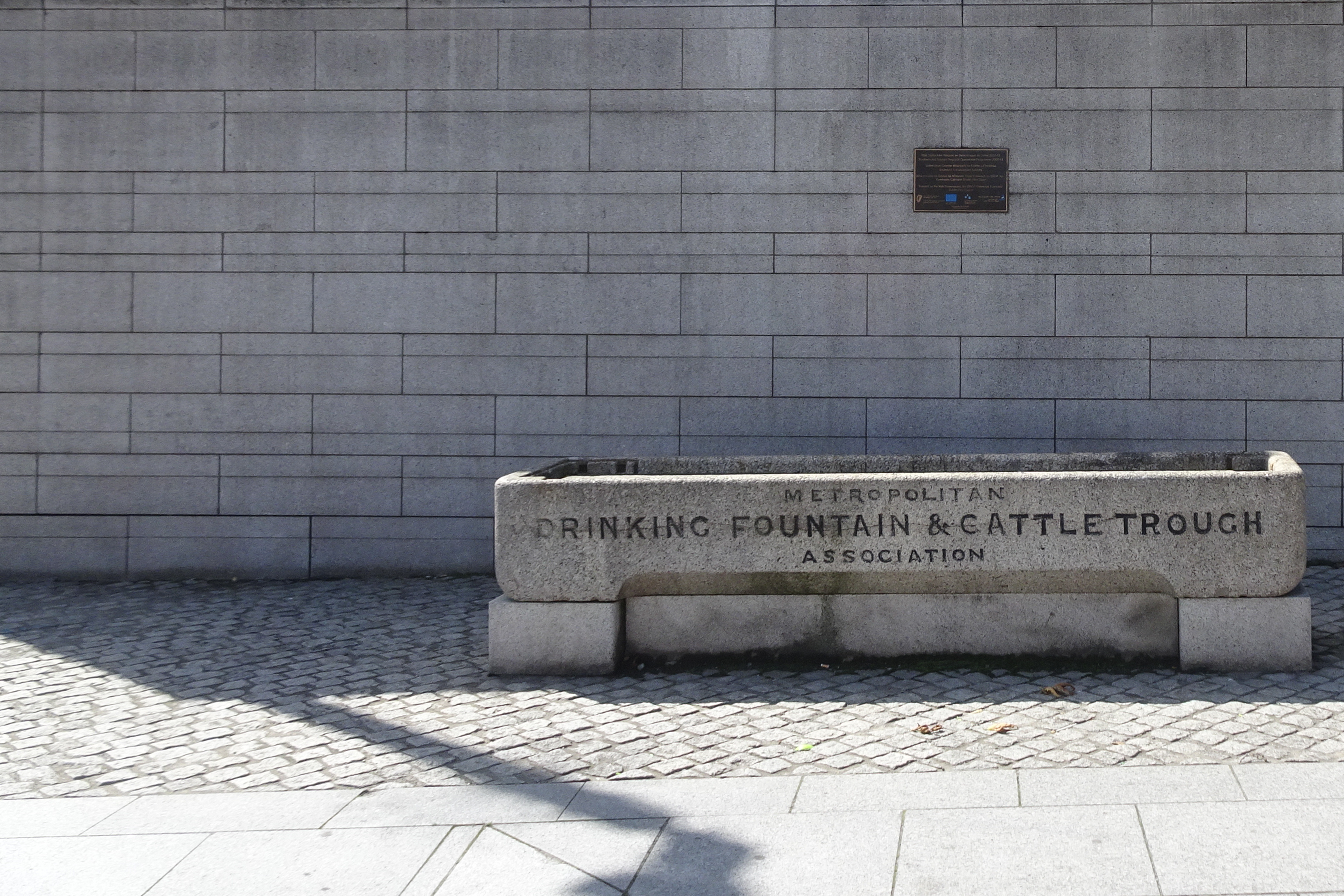 Smithfield (Margadh na Feirme, meaning "Farm Market") is an area on the Northside of Dublin. Its focal point is a public square, formerly an open market, now officially called Smithfield Plaza, but known locally as Smithfield Square or Smithfield Market. Metropolitan Drinking Fountain & Cattle Trough Association, Smithfield, Dublin 7 (established in London in 1859)